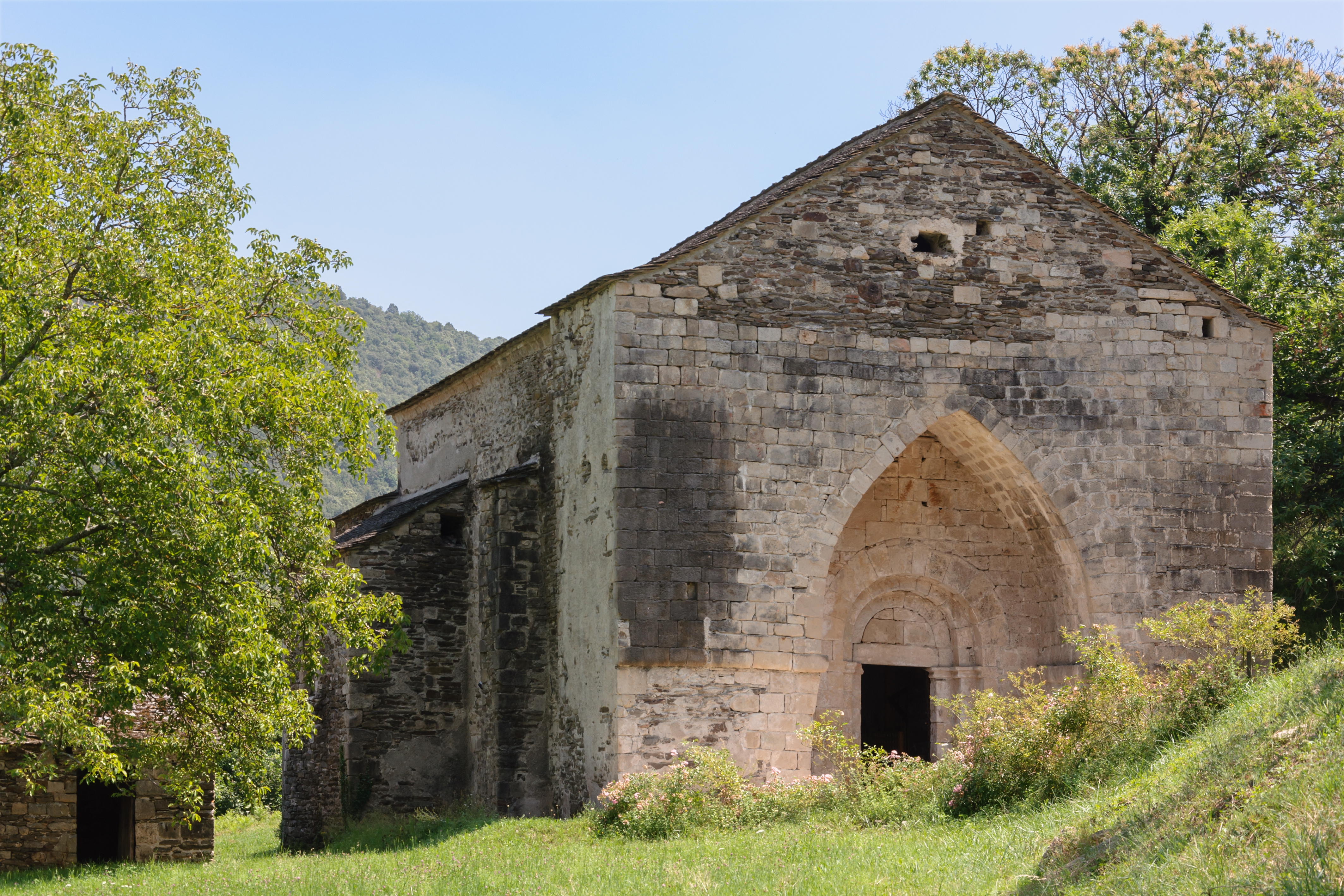 Former church of Molezon, Lozère, France .